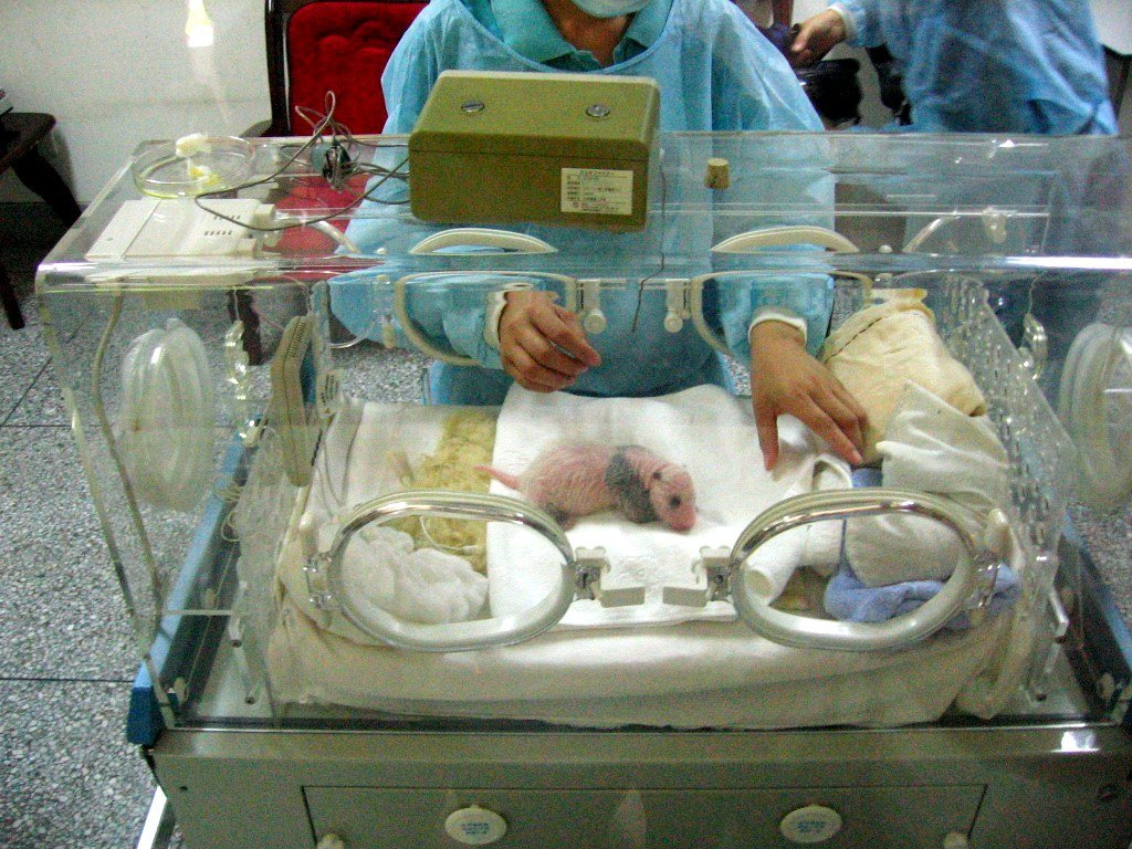 Giant Panda (Ailuropoda melanoleuca "black-and-white cat-foot") about one week old at Chengdu's Giant Panda Breeding Research Base.